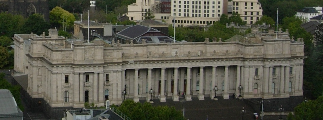 Parliament_House_Melbourne